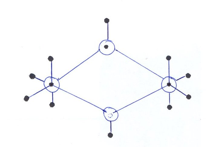 Cyclohexane Newman projection